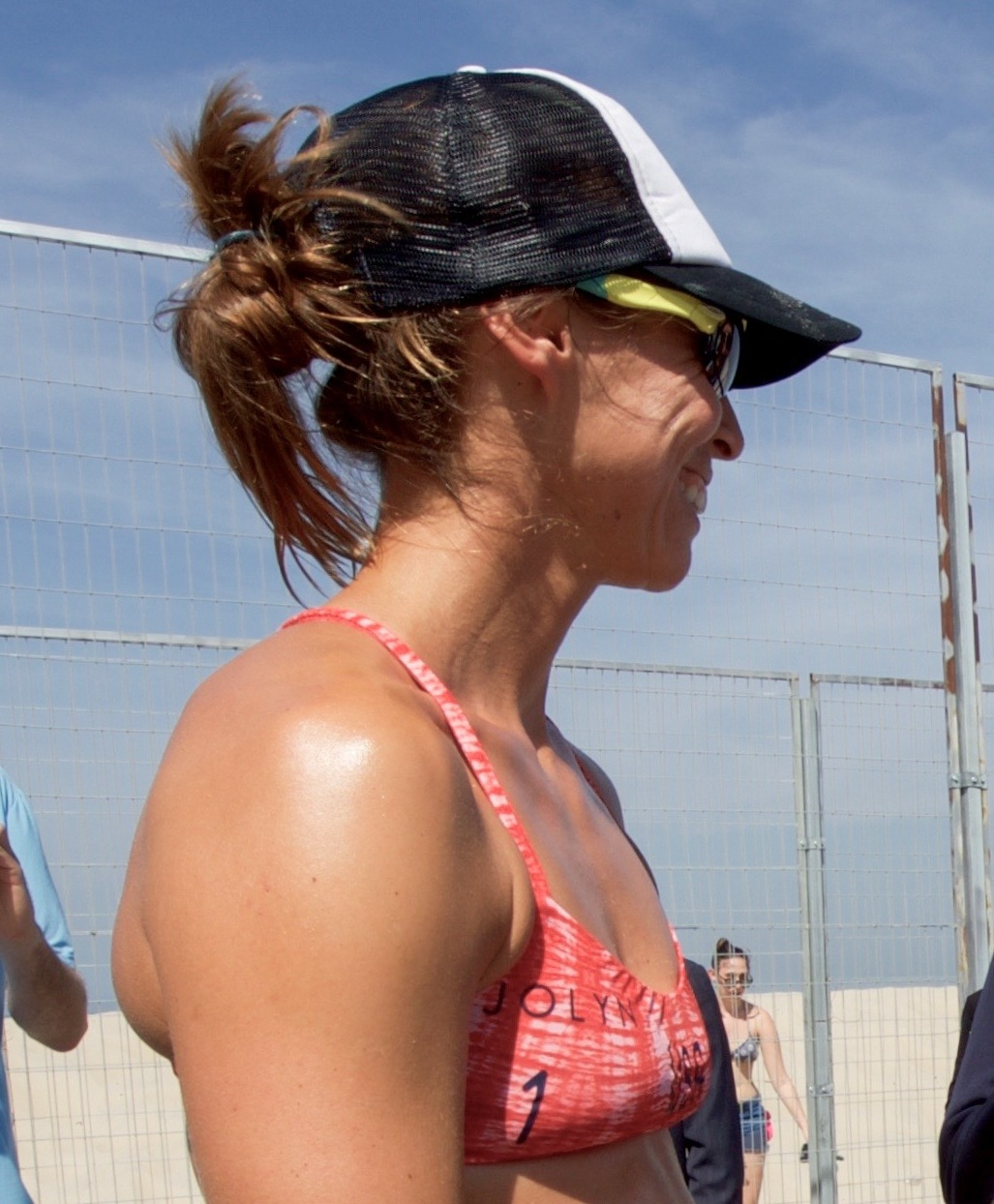 U.S. Secretary of State John Kerry speaks with U.S. Olympic women's beach volleyball players Lauren Fendrick (left) and Brooke Sweat (right) on the Copacobana beach in Rio de Janiero, Brazil, on August 6, 2016, as he and his fellow members of the U.S. Presidential Delegation attend the Summer Olympics. [State Department Photo/ Public Domain]